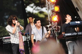 cocofunka en el concierto del 8% del pib en la ucr